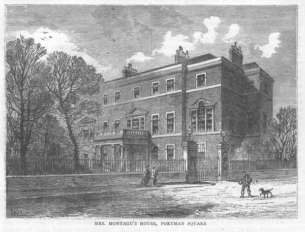 Montagu House, Portman Square, London